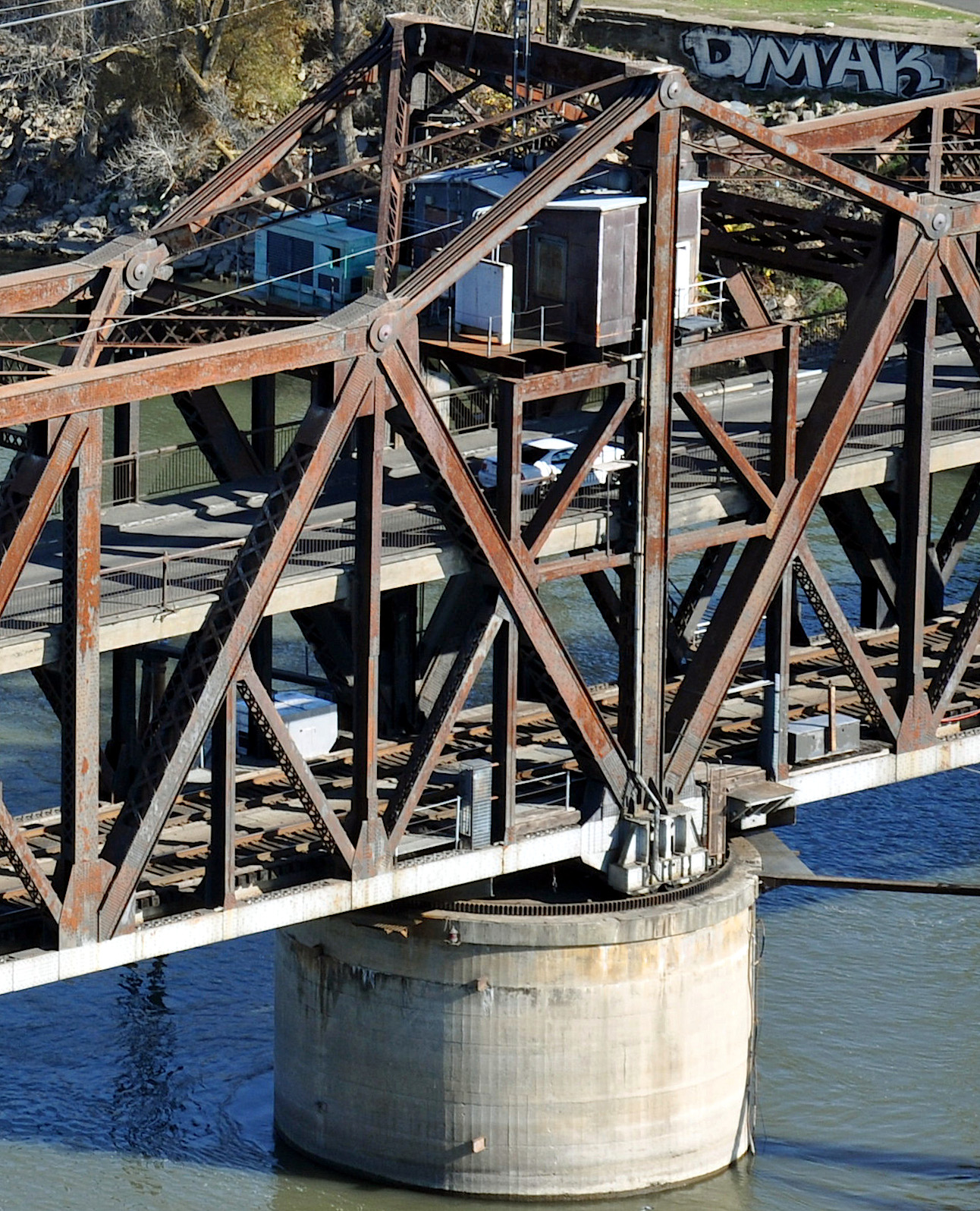 Aerial view of the I Street Bridge, a double-deck road/rail swing bridge across the Sacramento River in downtown Sacramento, California Photo taken from the CalSTRS Building in West Sacramento